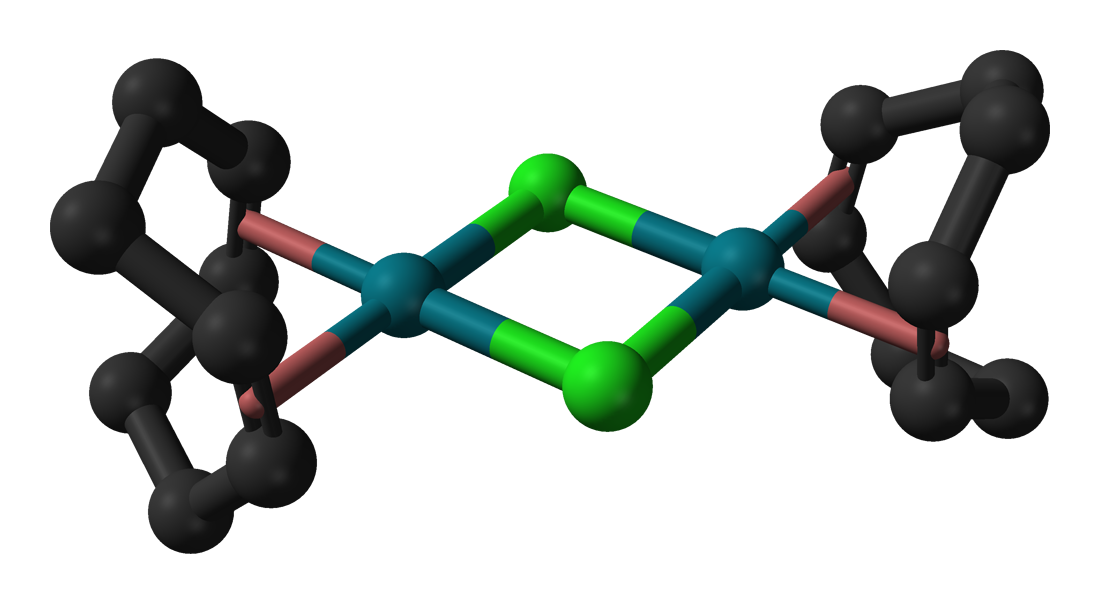 Ball-and-stick model of the cyclooctadiene rhodium chloride dimer